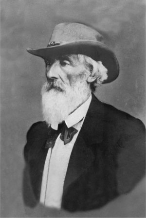 Tito Bassetti